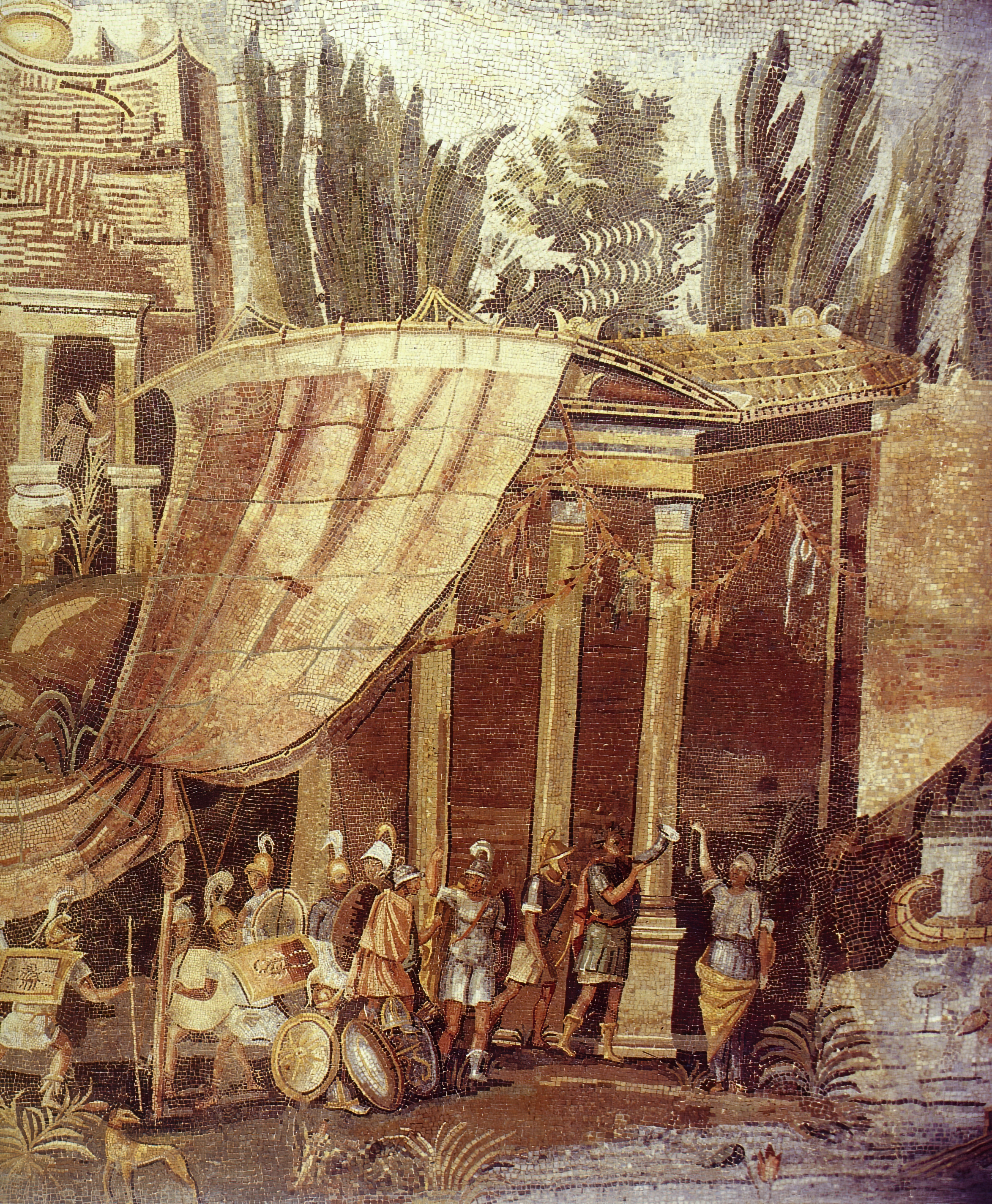 Detail of Nile mosaic from Palestrina (section 13). Museo Nazionale Palestrina, Italy.